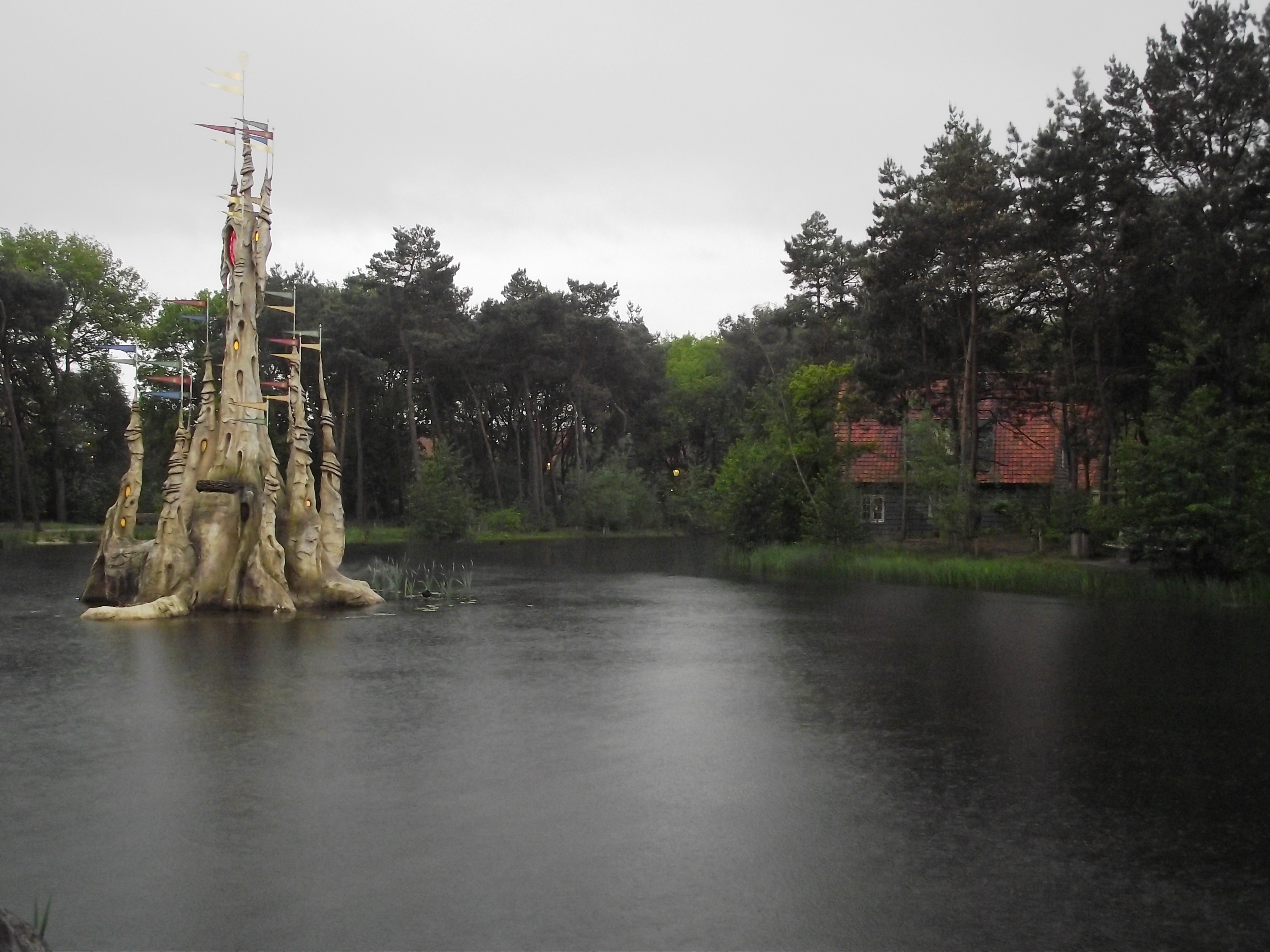 Sandcastle at Bosrijk Efteling